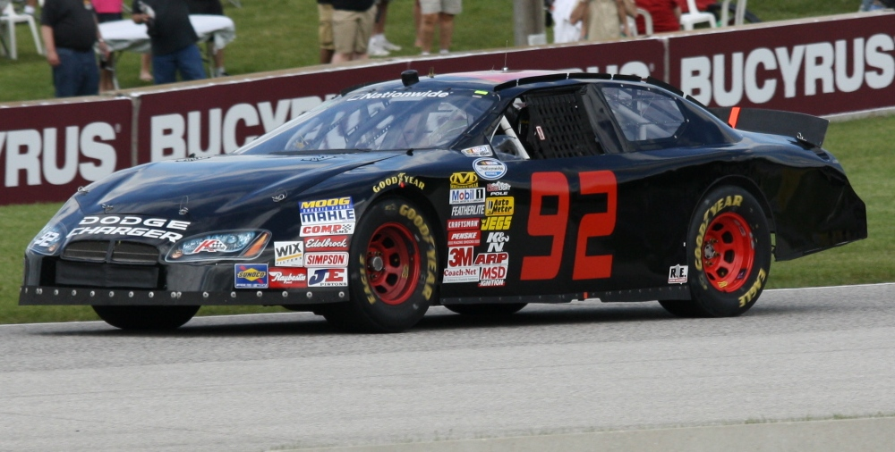 The NASCAR racecar for driver Andy Ponstein at the 2010 Bucyrus 200 at Road America.